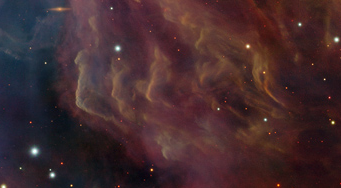 Near infrared image of the ripples formed on the cloud by the stellar winds in the orion nebula.